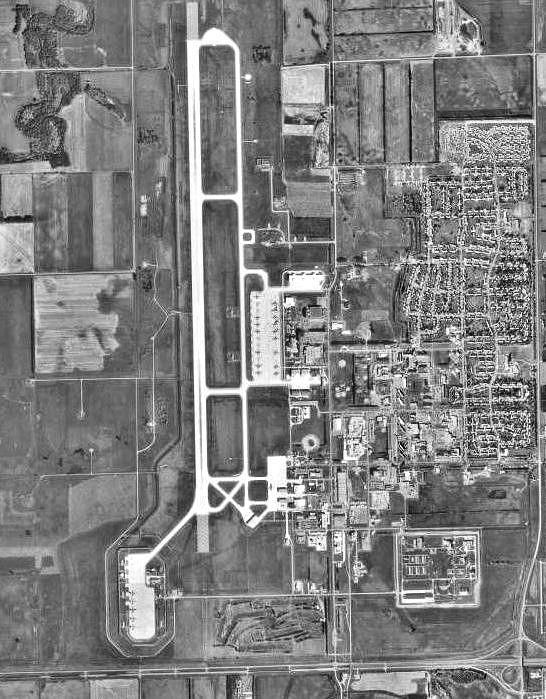 USGS orthophoto of Grand Forks Air Force Base in Grand Forks, North Dakota, United States.